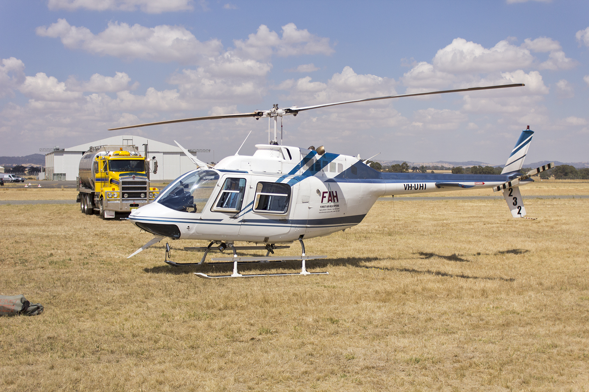 Forest Air Helicopters (VH-UHI) Bell 206B JetRanger at Wagga Wagga Airport.